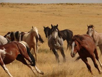 Wild horses at Saylor Creek — in Owyhee County, Idaho. The Saylor Creek Wild Horse Herd lives on approximately 83,540 acres (33,810 ha) in the southern portion of the Jarbidge and Burley Field Offices of the BLM−Bureau of Land Management in Idaho. According to local history, the foundations of the Saylor Creek Horse Herd date back to the early 1960s when mares were captured near Challis, Idaho, and transported to an area south of Glenns Ferry, Idaho. Small bands of horses could be found in the vicinity of Dove Springs and the Sailor Creek seep. A registered stud was purchased and turned out with the mares, and colts were captured in annual roundups. This practice ended when the Saylor Creek Herd was established in accordance with the Wild and Free-Roaming Horse and Burros Act of 1971.